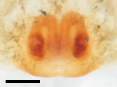 Epigyne of female holotype of Zygoballus maculatus jumping spider. Ventral view under alcohol. Scale equals 0.1 mm.